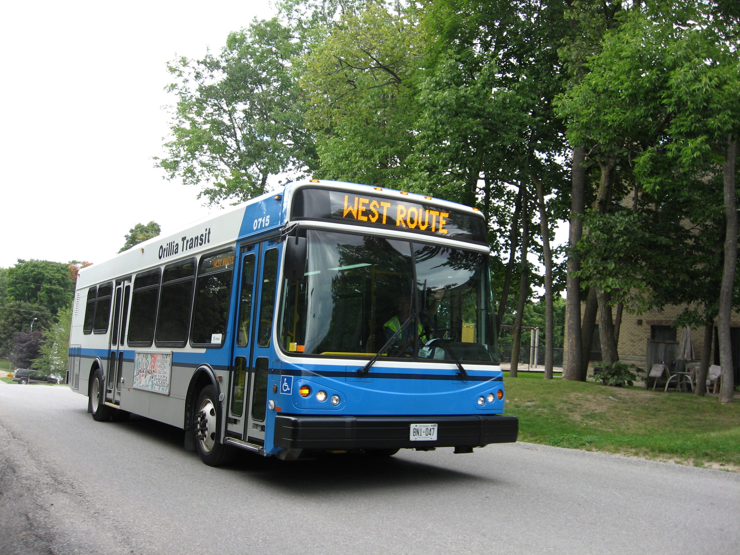 Bus operated by Orillia Transit in Orillia, Ontario, Canada.